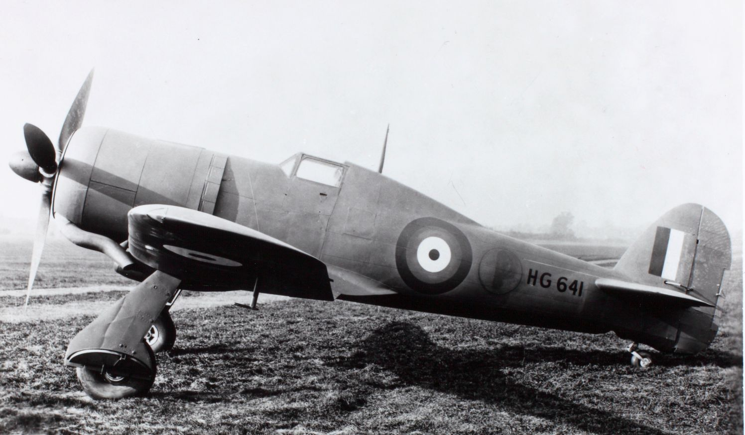 Image from the Charles Daniels Photo Collection album "British Aircraft." SOURCE INSTITUTION: San Diego Air and Space Museum Archive